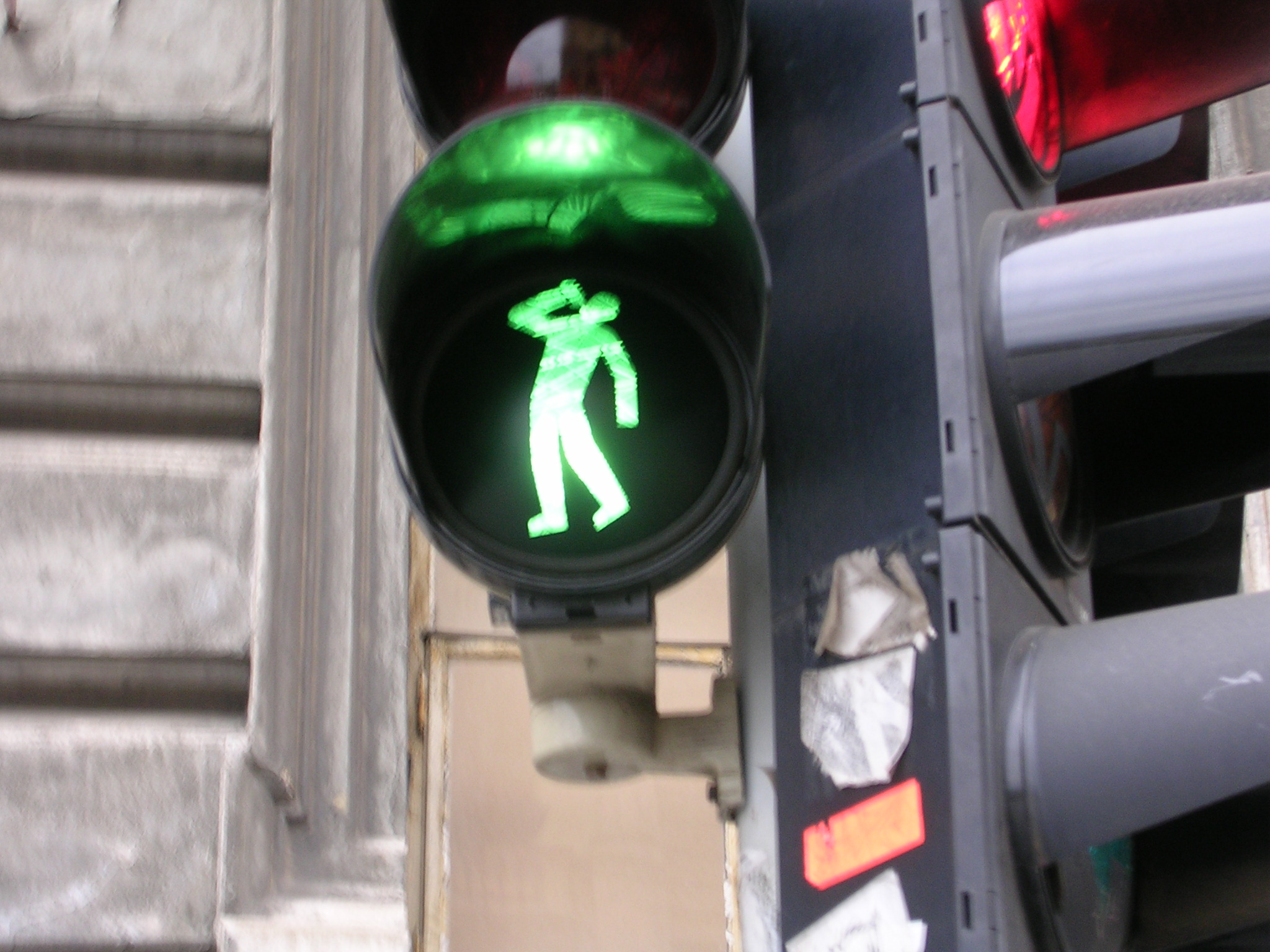 Illegally modificated traffic light in Prague, the Czech Republic. (Performance of underground streetart group Ztohoven.) - OpenStreetMap(Info)